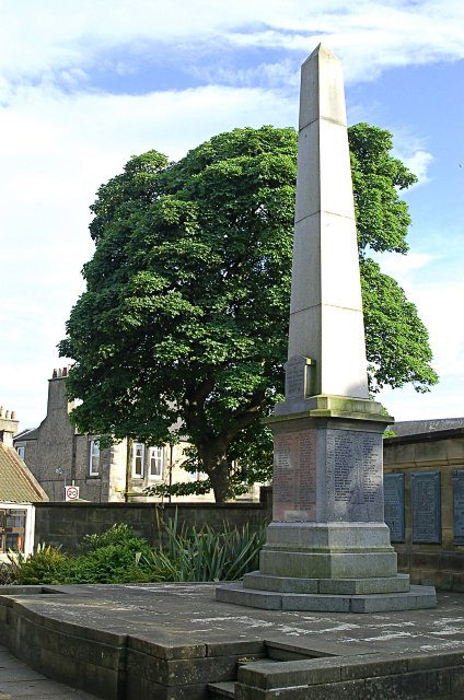 Leven's War Memorial At the junction of Durie Street and Victoria Road by the Church of Scotland.